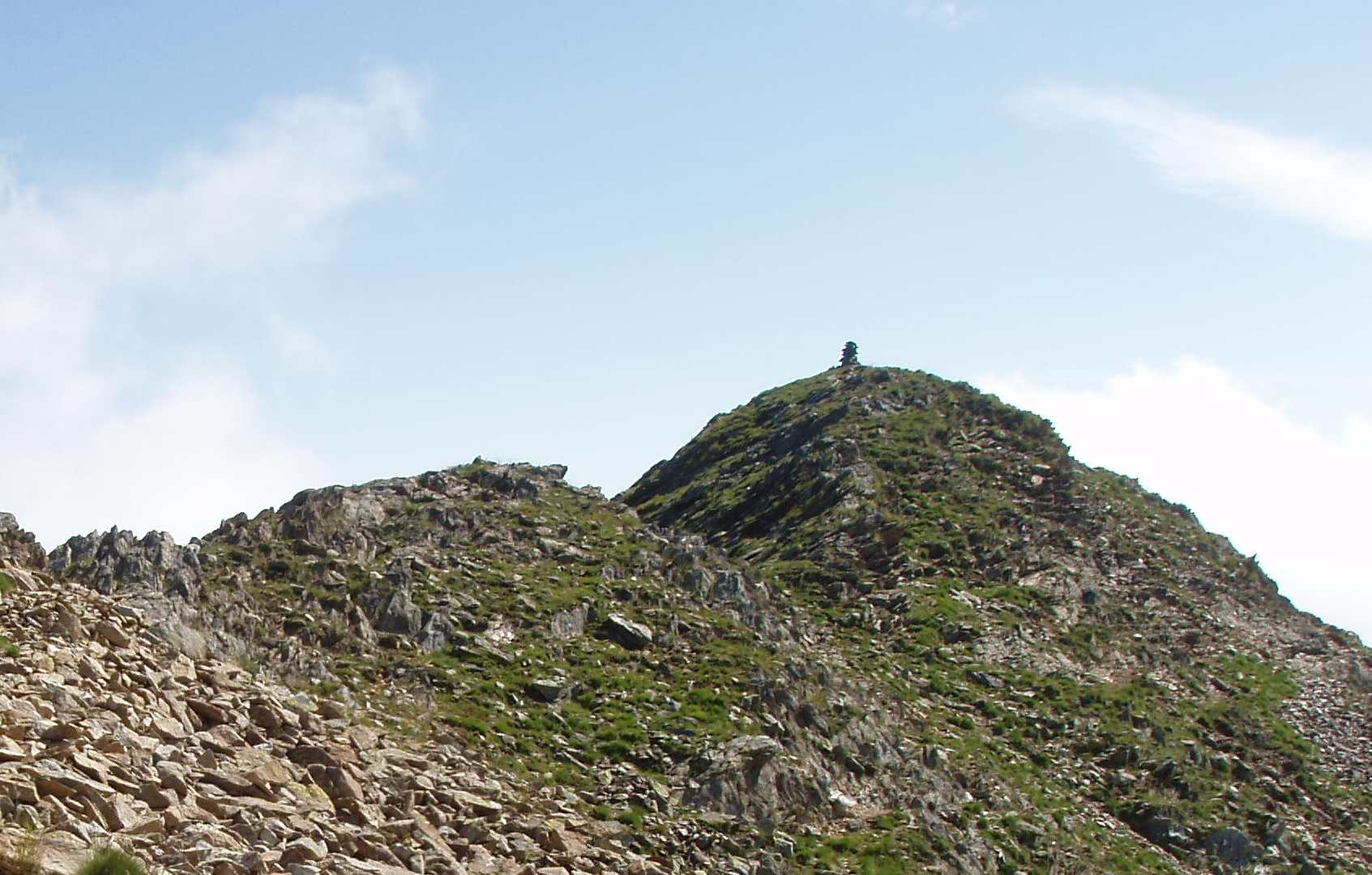 Punta Imperatoria (Italy, Piedmont)